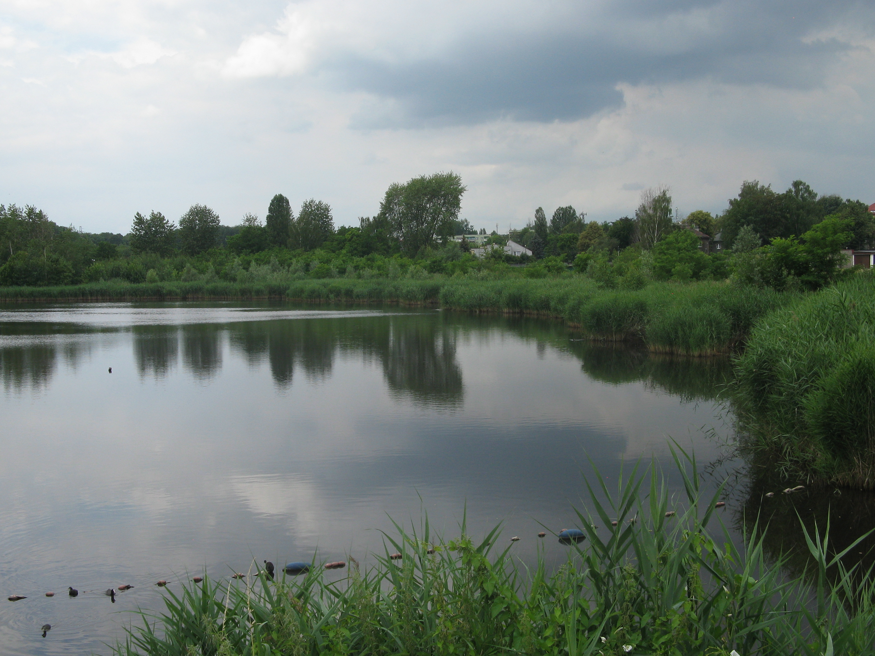 Kalina pond in Świętochłowice, Poland.